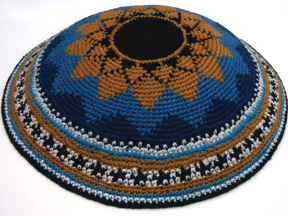 Kippa from Israel tapestry crocheted with single crochet stitches, inserting the hook under both top loops.